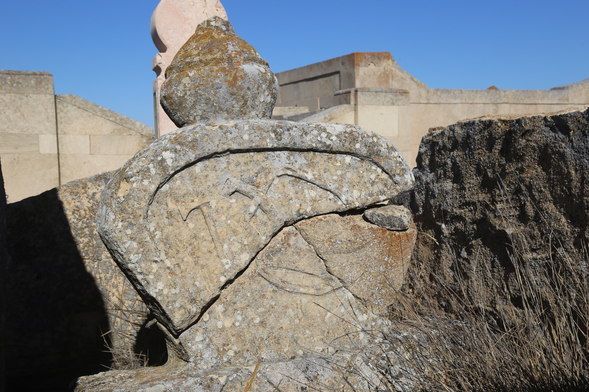 Sisem-Ata